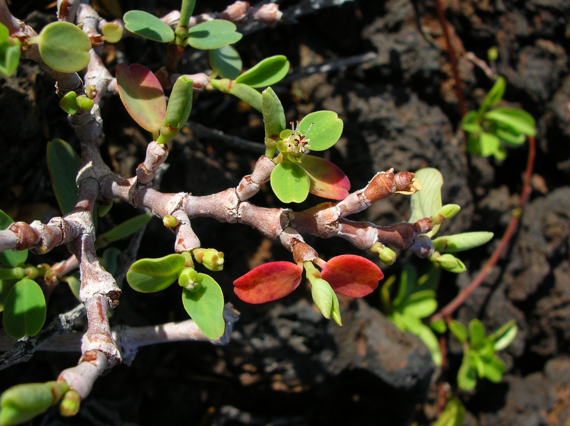 Chamaesyce celastroides (leaves and flowers). Location: Maui, Kanaio Beach